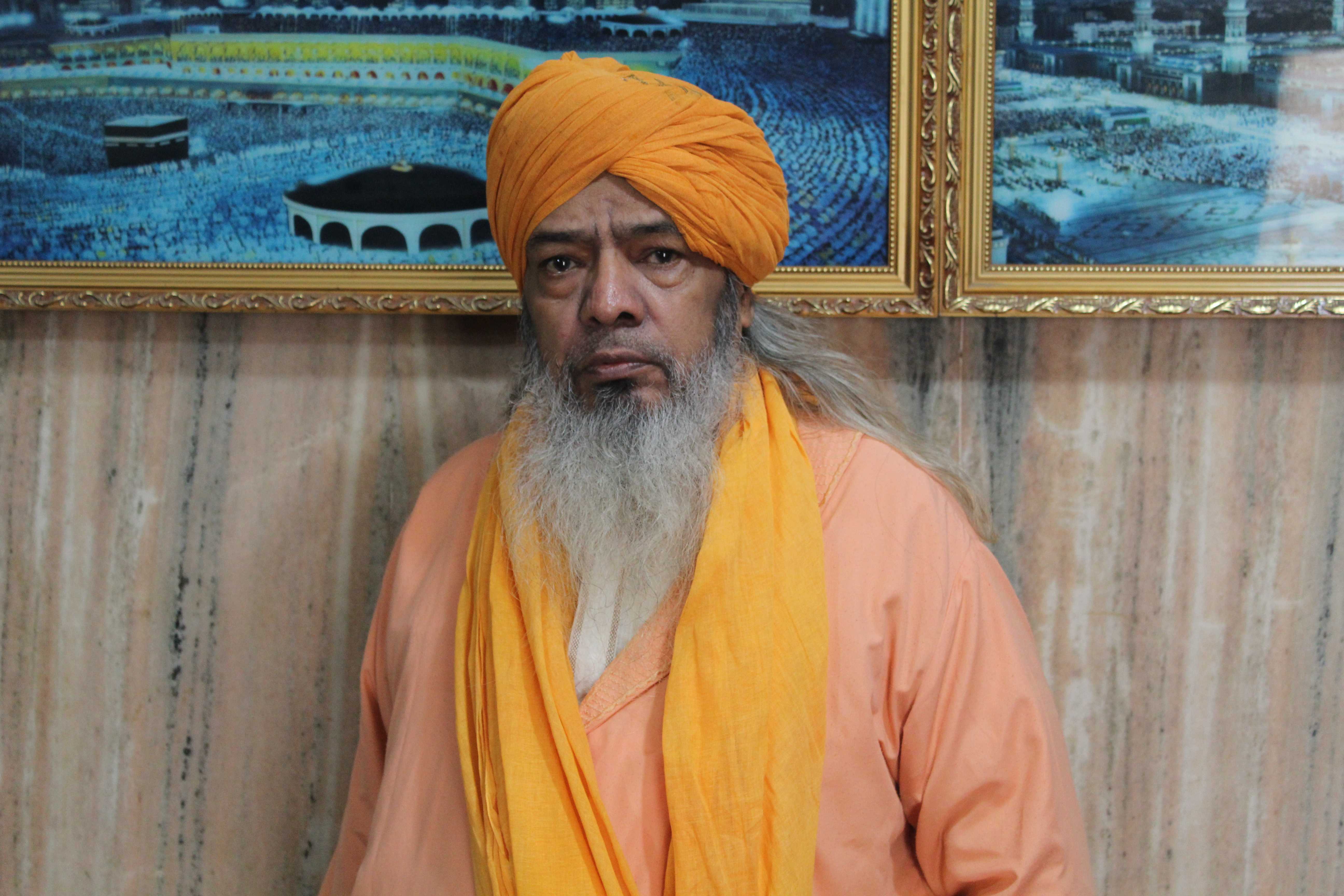 I have gathered this picture from one of my overseas friend Mr. Arfas Khan of Indian Kerala State. While I would like to upload a photo of Dewan Syed Zainul Abedin Chisti Ajmeri under a free licence at wiki-commons then my friend send me this photo by email. I am thankful to him for this photo.